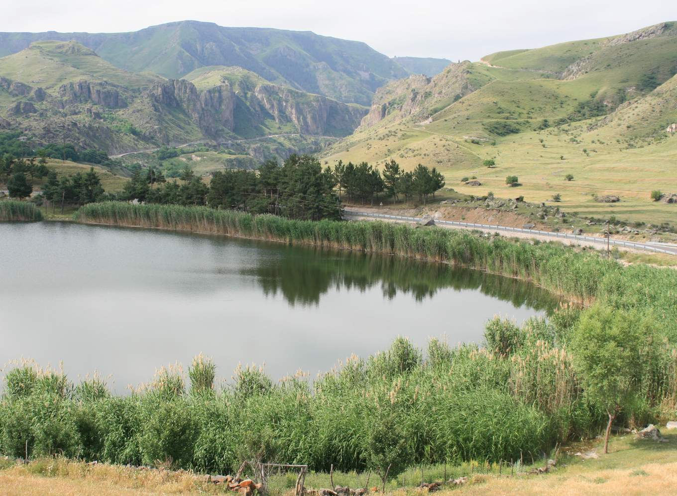 Lake Tsunda and Tmogvi castle